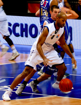 Alex Wesby playing for GasTerra Flames in a Dutch Basketball League game against Stepco BSW.